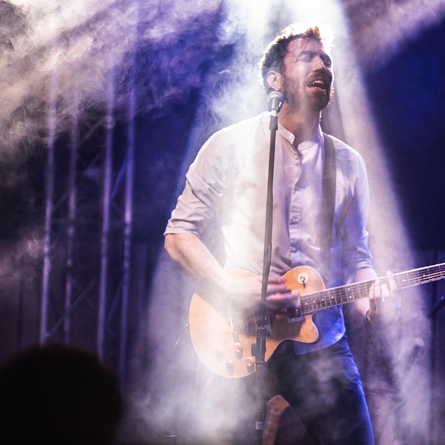 Mikser Festival, Beograd (2019)